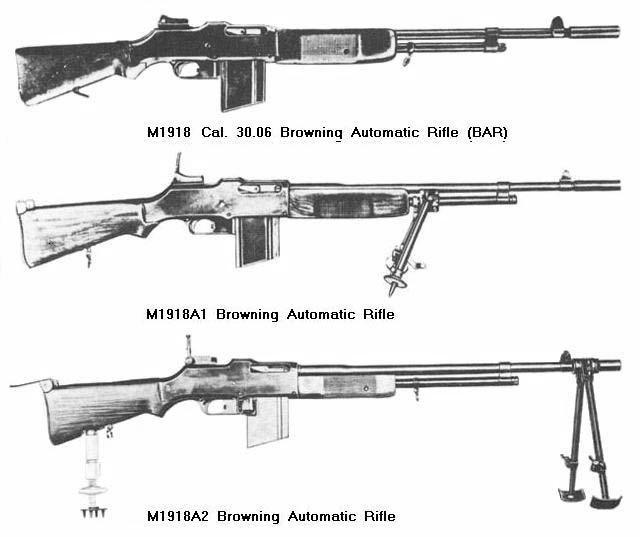 M1918 variants(M1918, M1918A1 and M1918A2)